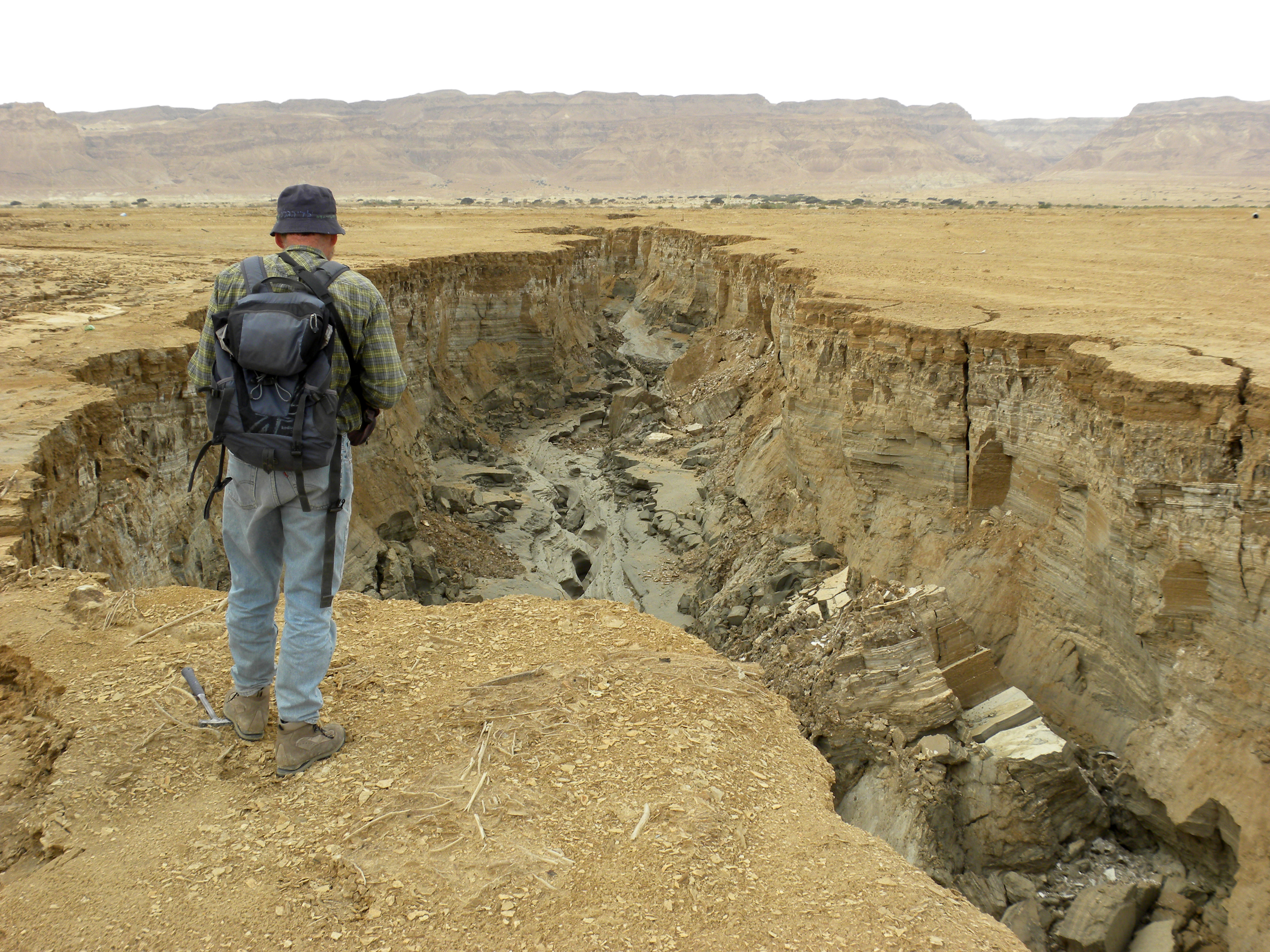 Erosion of Dead Sea sediments, southwestern coast of the Dead Sea, Israel; this gully was cut by floods in less than a year.